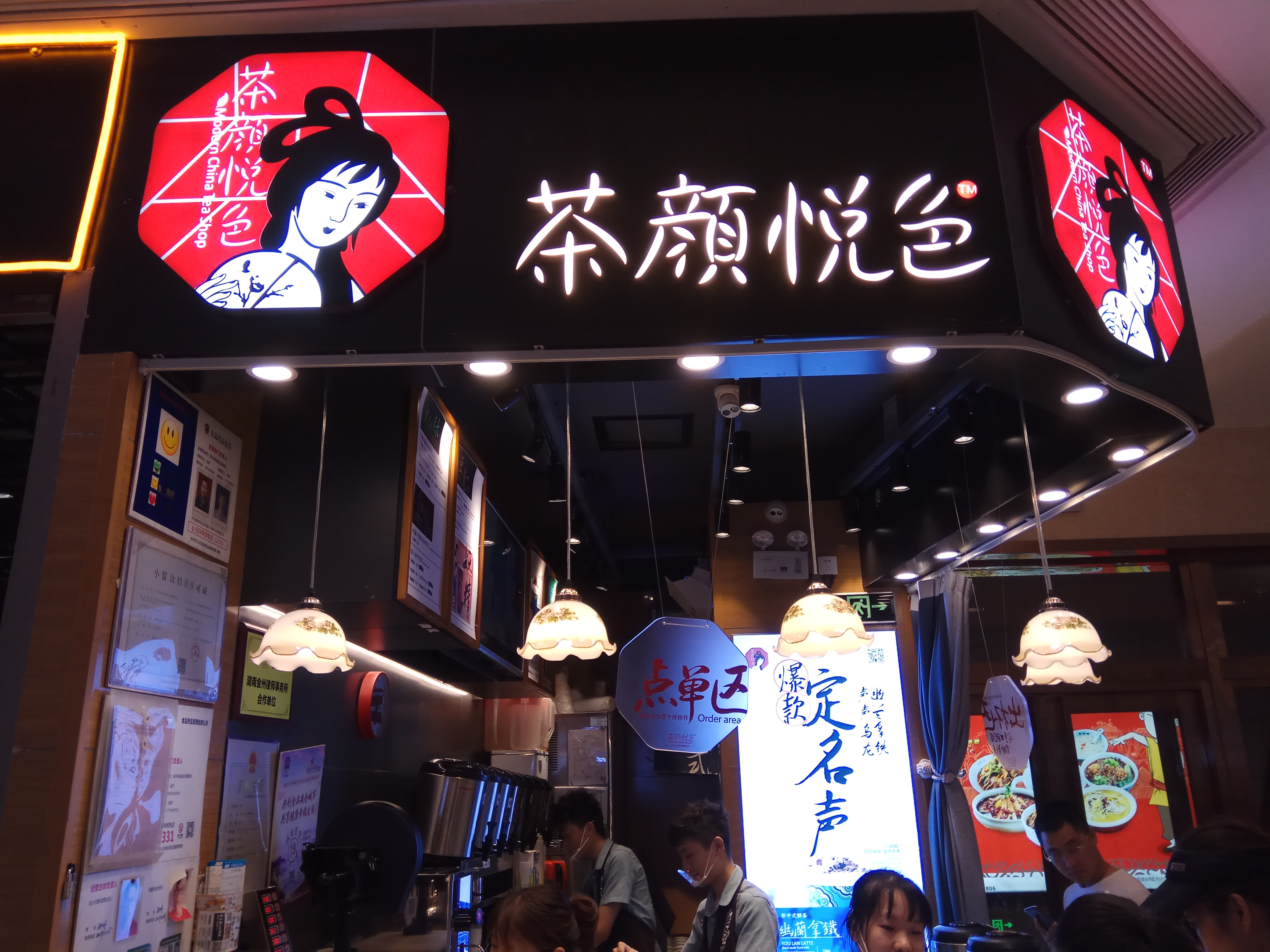 Sexy Tea, the milk tea chain shop in Wuyi Square Station, Changsha. 中文（中国大陆）: 湖南长沙五一广场地铁站的一家茶颜悦色分店。